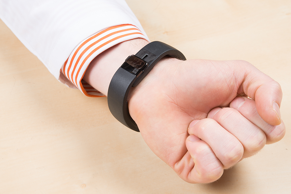 a 1st-generation Microsoft Band being torn down